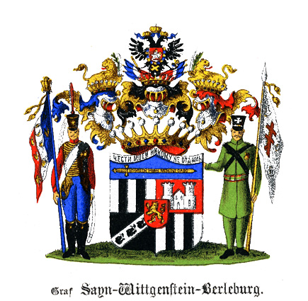 Coat of arms of Сount Sayn-Wittgenstein (Baltisches).